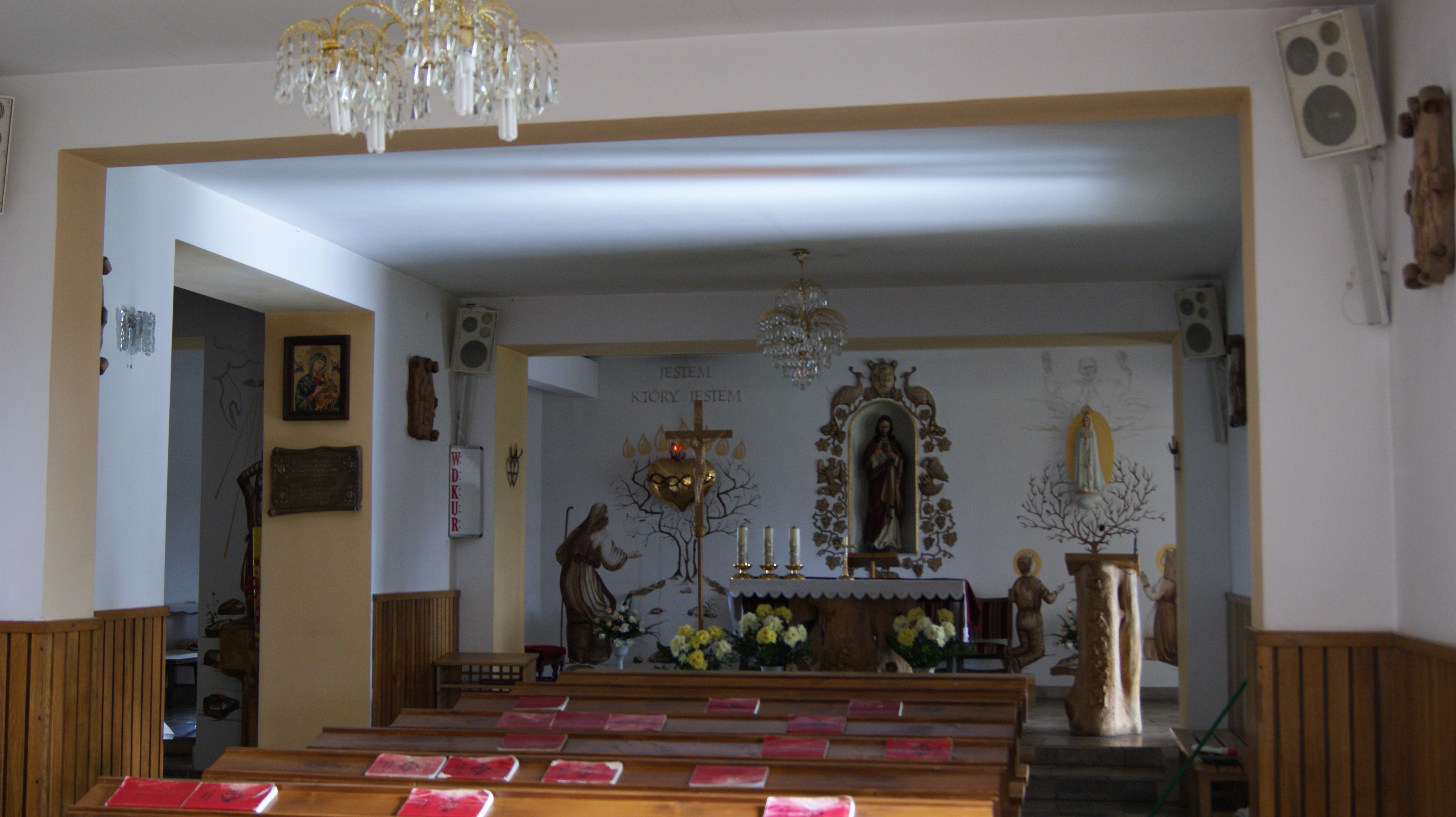 Sacred Heart of Jesus Church (inside),1a Niewielka street,Lubocza,Nowa Huta,Krakow,Poland